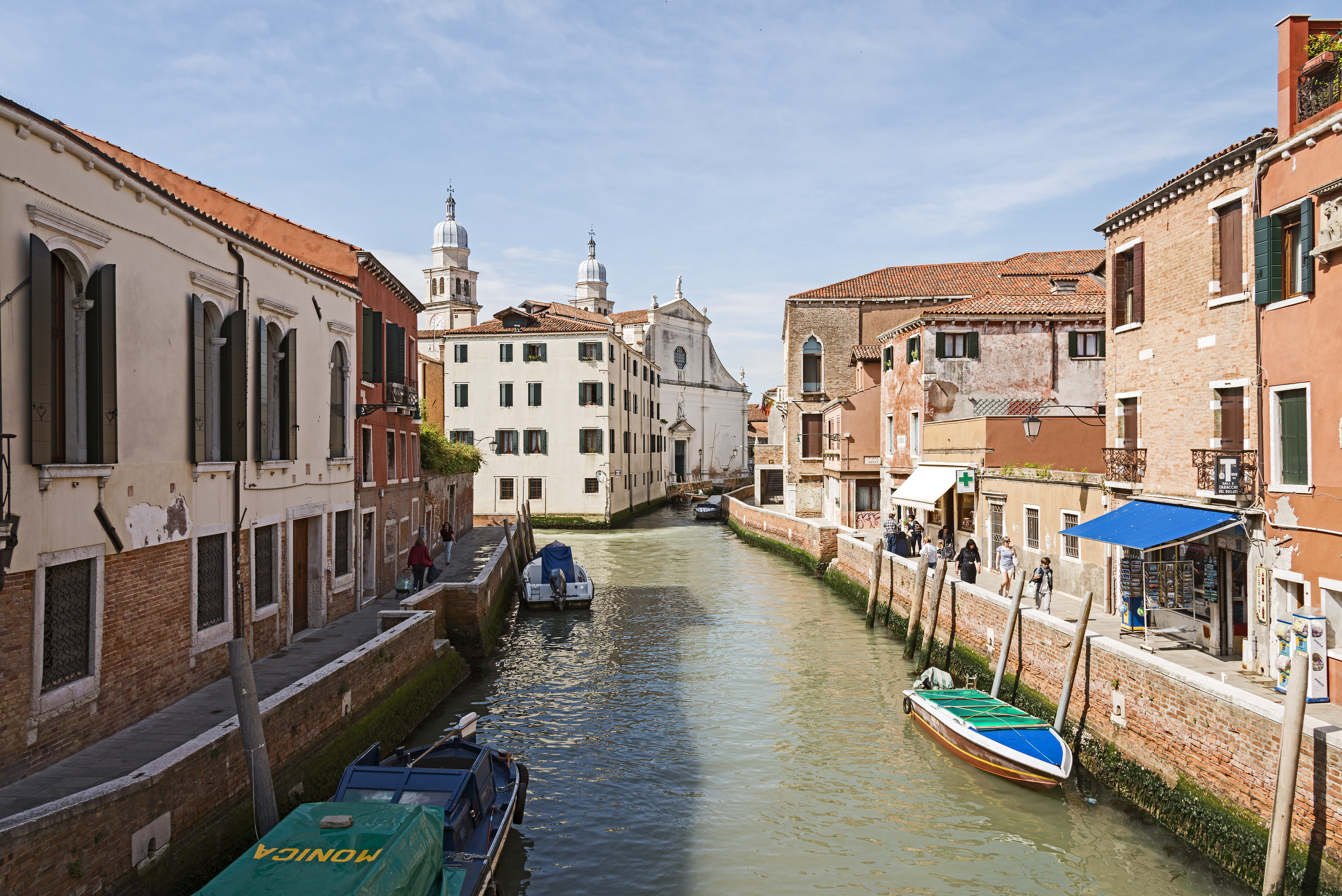 Rio dei Carmini to Venice. Western limit of the Rio, view from Ponte del Soccorso.